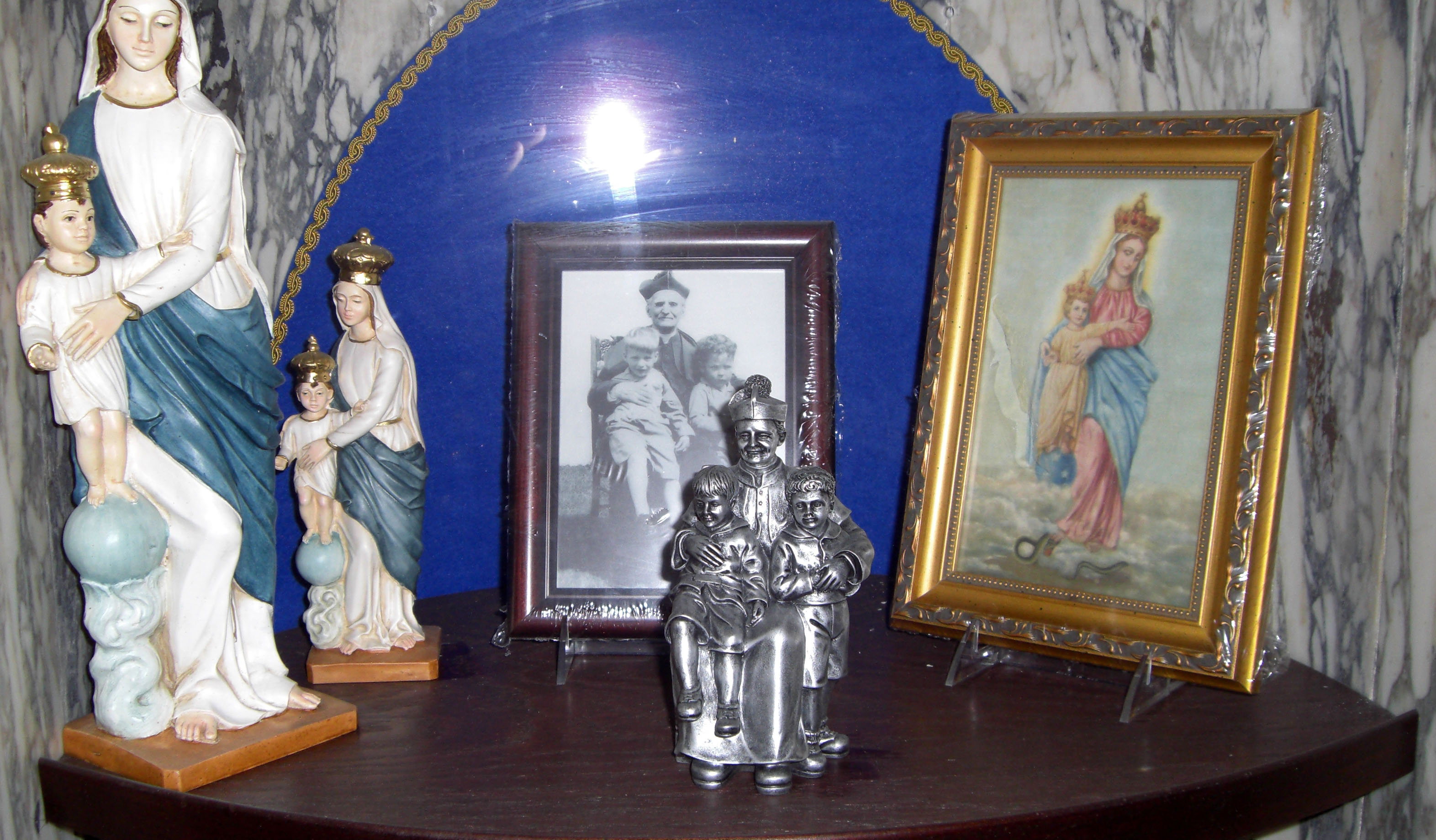 Some of the pictures and memorabilia found in the Father Baker rooms in the basement of Our Lady of Victory Basilica in Lackawanna, New York.